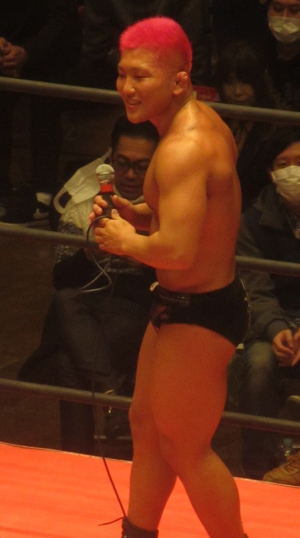 Japanese professional wrestler, El Lindaman.